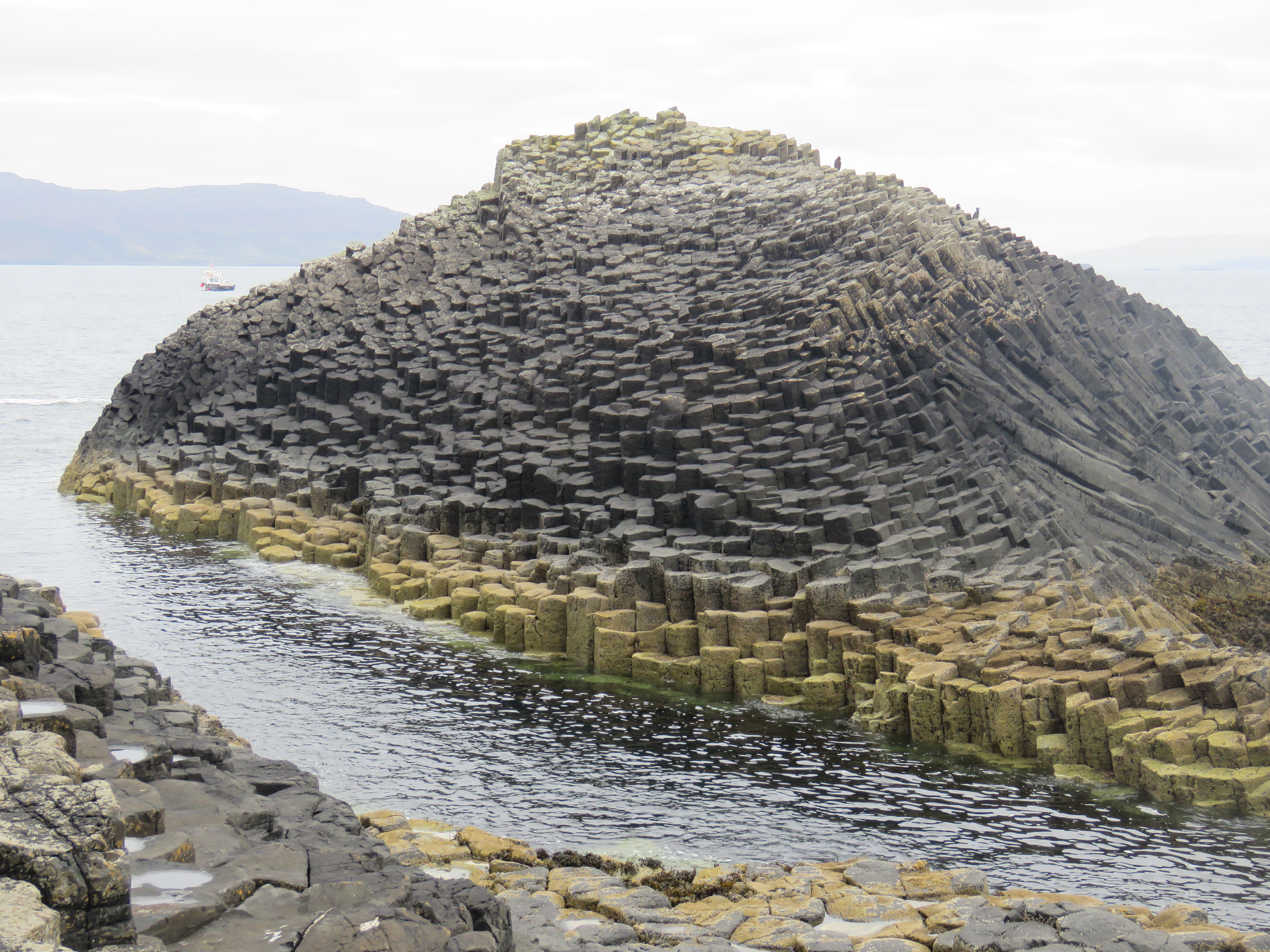 Basalt columns, Staffa, Inner Hebrides, Scotland